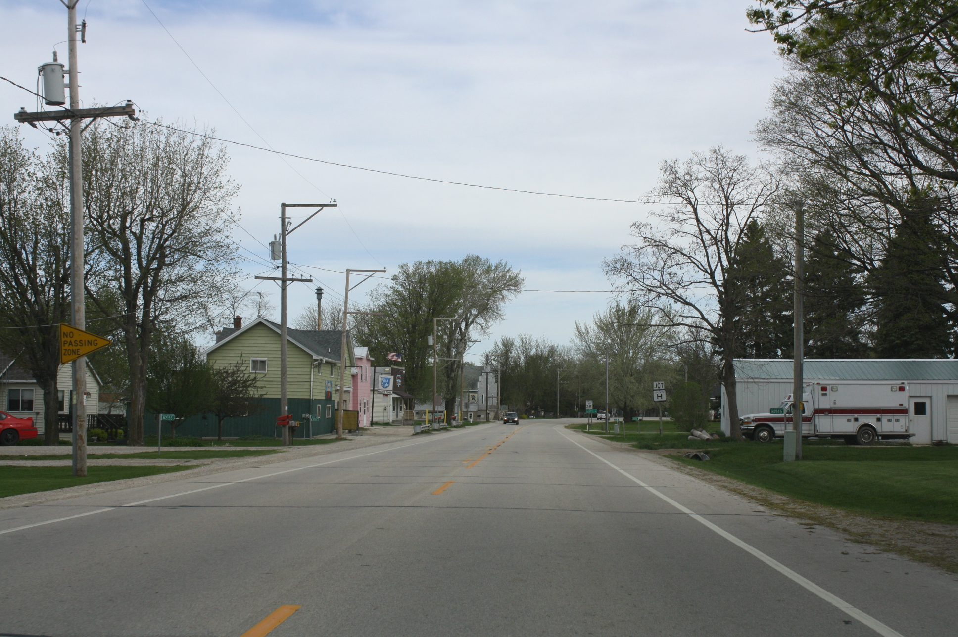 Looking north at downtown Brothertown, Wisconsin (unincorporated community) on U.S. Route 151.